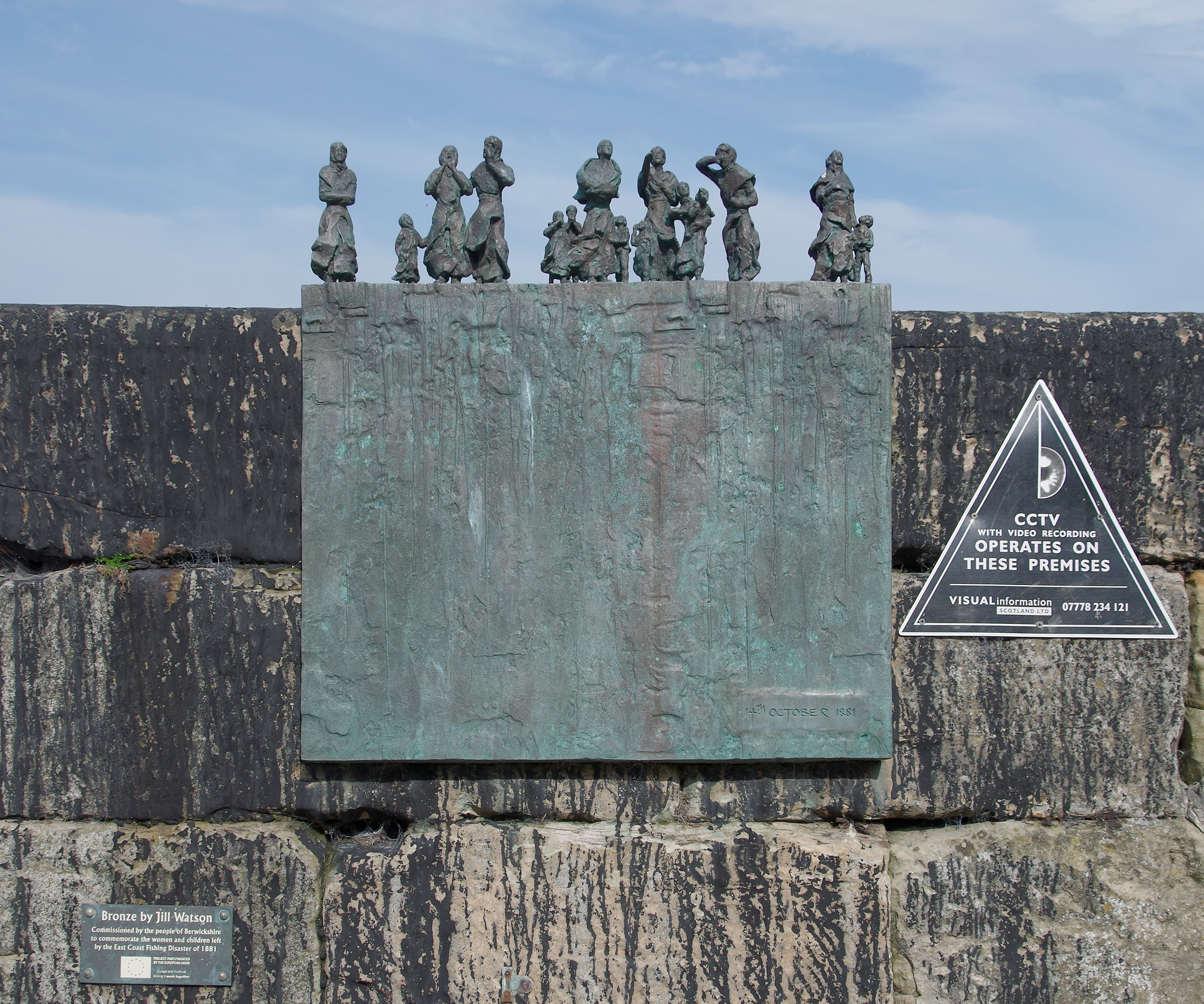 "Bronze" by Jill Watson, a memorial on the wall of the harbour at Burnmouth in Scotland, commemorating the victims of the 1881 East Coast Fishing Disaster.